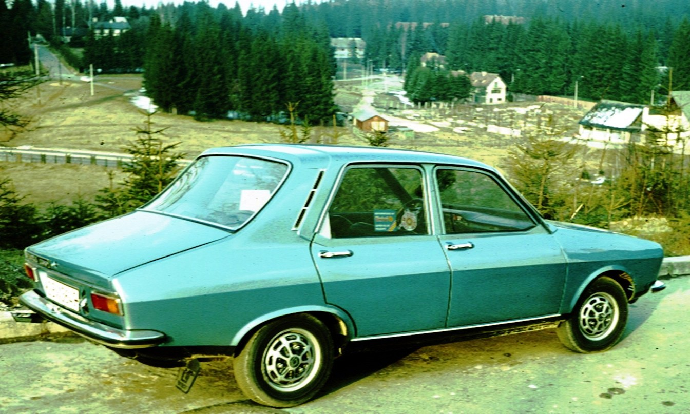 A Dacia 1300 “Berlina” (a Renault 12 built under Romanian license) from between 1969 and 1979. Photo taken in the Romanian ski resort Poiana Braşov.